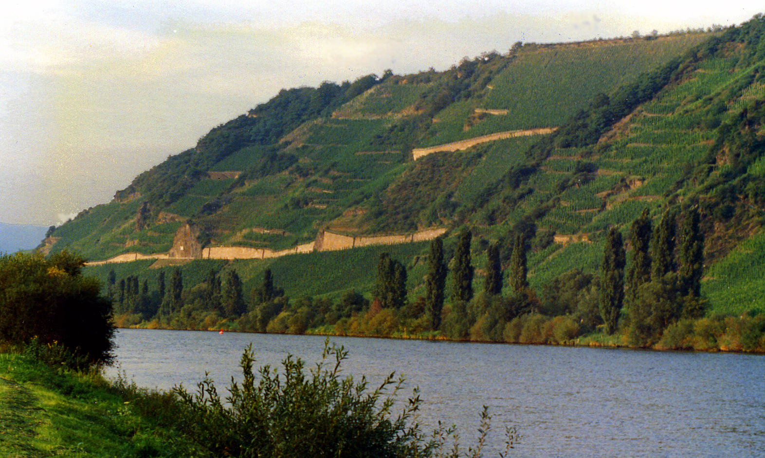 Mosel vineyard in Trittenheim, Germany.